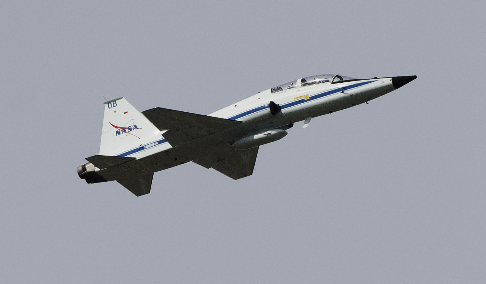 A NASA T-38 training jet is seen as it flies over Washington, DC, Thursday, April 5, 2012. NASA, in cooperation with the Federal Aviation Administration, conducted training and photographic flights over the DC metropolitan area. T-38 aircraft have been used for astronaut training for more than 30 years as they allow pilots and mission specialists to think quickly in changing situations, mental experiences the astronauts say are critical to practicing for the rigors of spaceflight. Credit: NASA/GSFC/Rebecca Roth NASA image use policy. NASA Goddard Space Flight Center enables NASA’s mission through four scientific endeavors: Earth Science, Heliophysics, Solar System Exploration, and Astrophysics. Goddard plays a leading role in NASA’s accomplishments by contributing compelling scientific knowledge to advance the Agency’s mission. Follow us on Twitter Like us on Facebook Find us on Instagram